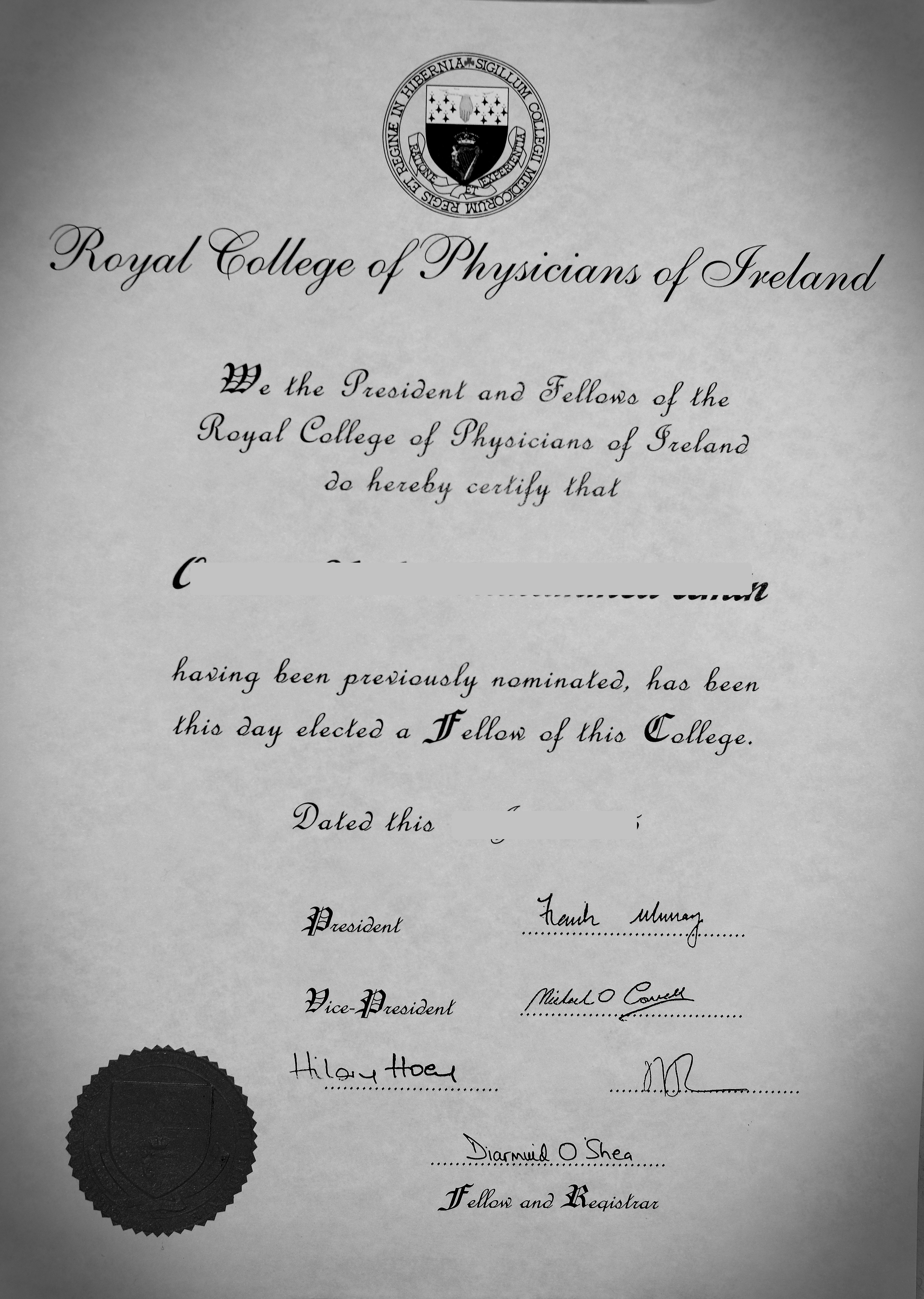 This is a scanned copy of a Fellowship Diploma of the Royal College of Physicians of Ireland, FRCPI.